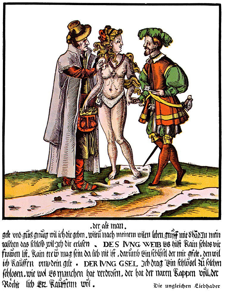 A 16th-century German satirical colored woodcut whose general theme is the uselessness of chastity belts in ensuring the faithfulness of beautiful young wives married to old ugly husbands. The young wife is dipping into the bag of money which her old husband is offering to give her (to encourage her to remain placidly in the chastity belt he has locked on her), but she intends to use it to buy her freedom to enjoy her young handsome lover (who is bringing her a key). For another closely-related 16th century woodcut (with different artwork, a better view of the lock, and the poem spelled according to a different German dialect, but basically the same idea), see Image:Alfons_luder_kunde.gif . Here's an approximate rendering of the text in the image (based on a transcript of the text in the Image:Alfons_luder_kunde.gif version of the woodcut which is provided in Eric John Dingwall's 1931 book The Girdle of Chastity), arranged to bring out the poetic form: der alt man gelt und gütz gnung wil ich dir geben wiltü nach meinem wilen leben. greift mit er hand In mein taschen das schloss wil Ich dir erlasen. DES IUNG WEIB Eß hilft kain schlos vir frauwen list. kain trew mag sein da lieb nit ist. darumb Ein schlüsel der mir gfelt. den wil ich kauffen umb dein gelt. DER IUNG GSEL Ich drag Ein schlüßel zu solchen schlosen. wie wol Eß manchen hat verdrosen. der hat der narrn kappen vüll. der Rechte lieb ERkauffenn wül. Here's an attempted rendering of this text into modern